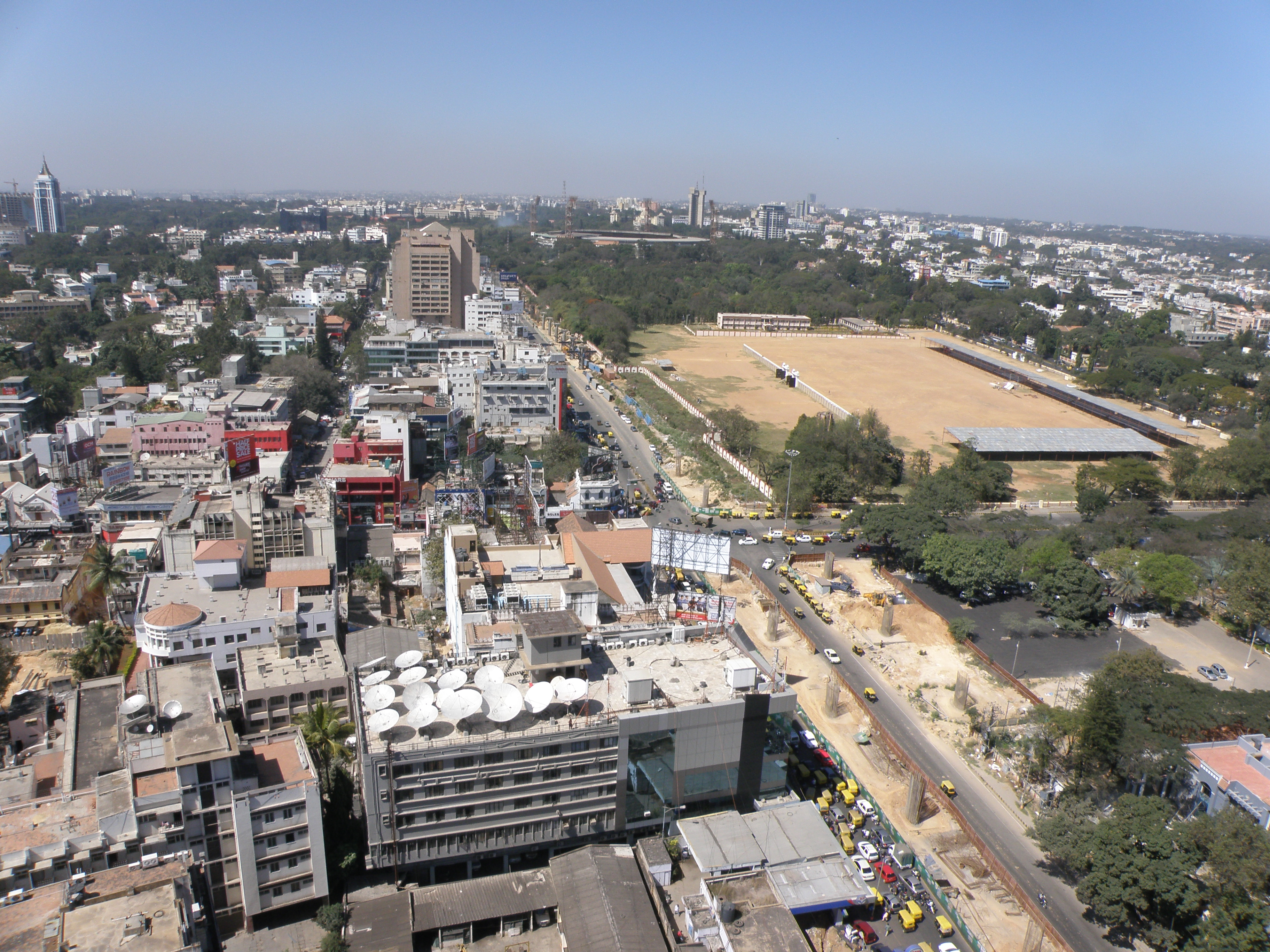 MG Road, Manekshaw Parade Grounds, and Chinnaswamy Stadium (background), as seen from Public Utility Building, Bangalore